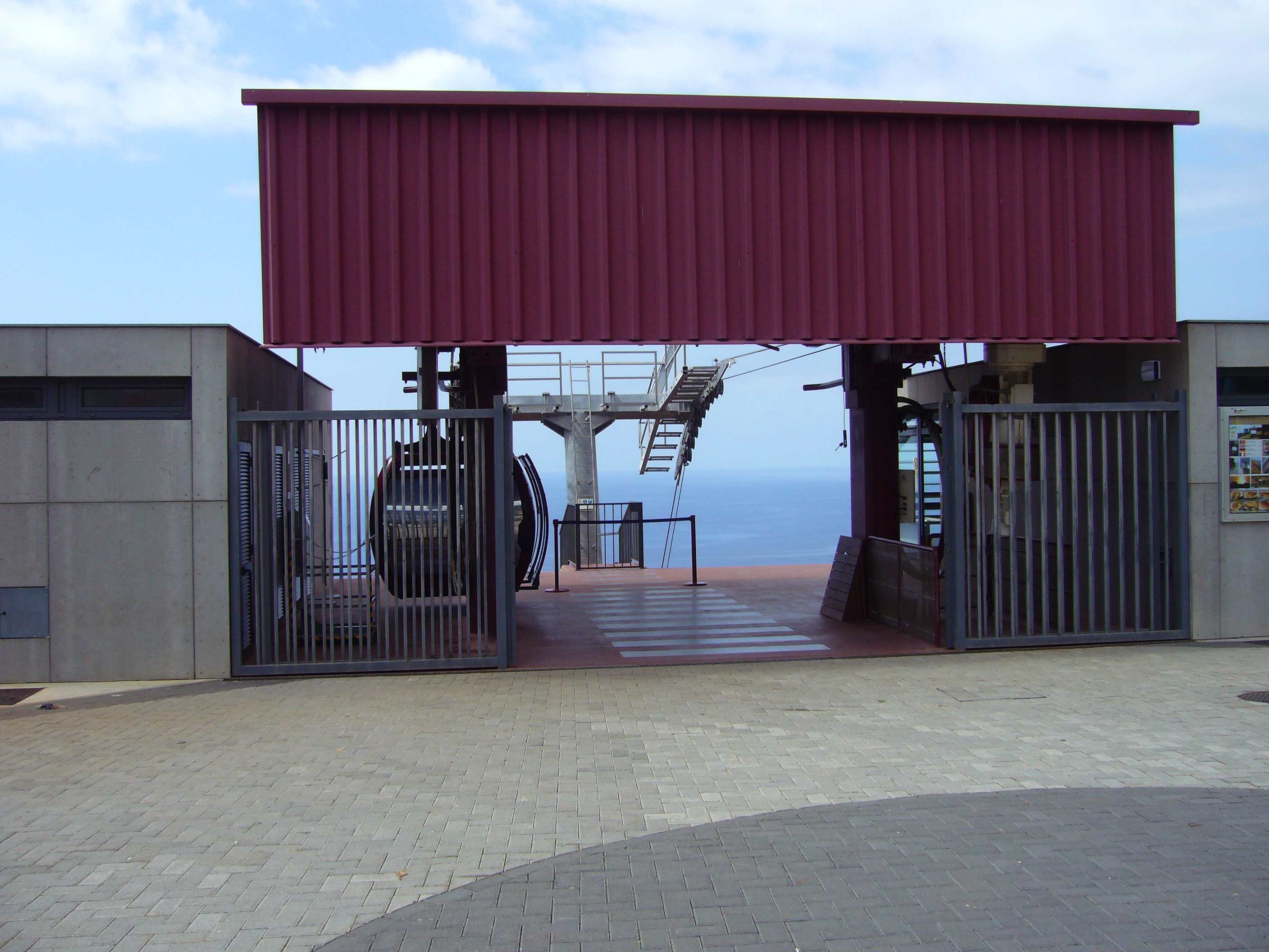 The upper station of the Garajau cableway - Madeira.